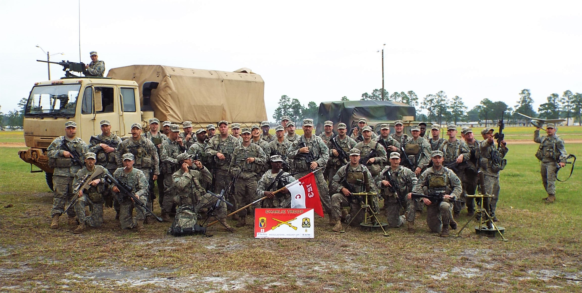 Troop C, 1-152 Cavalry at Fort Stewart during Annual Training in March 2015. Captain Ryan Hovatter commanded Troop C from 10/4/2014 to 4/1/2015, out of Tallahassee, FL